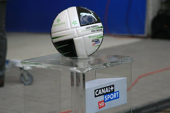 Puma match ball in Poland.